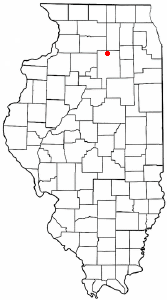 Category:Illinois city locator maps